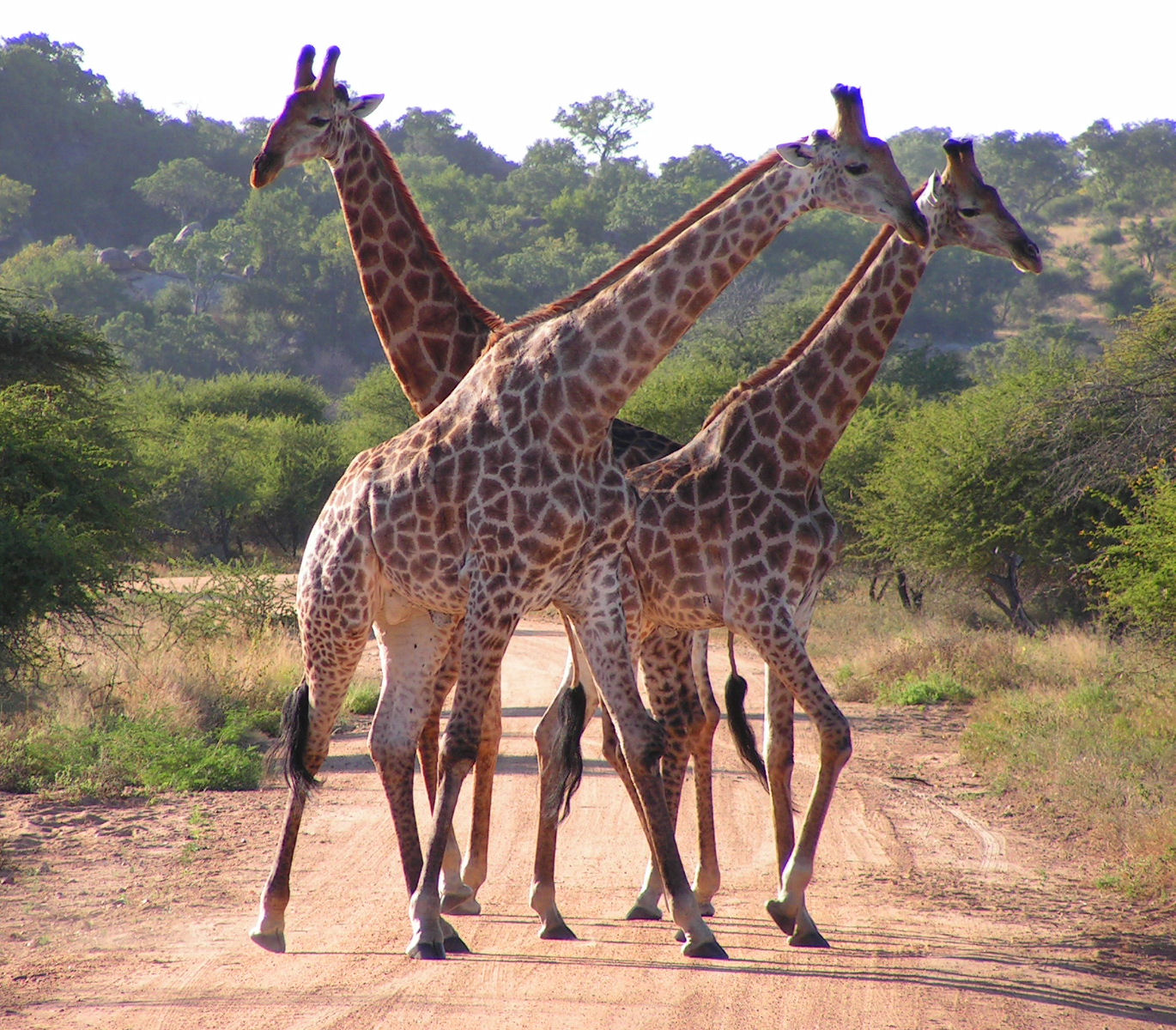 Southern African Giraffes, three bulls in central Kruger Park, South Africa. Two in front are fighting ("necking").